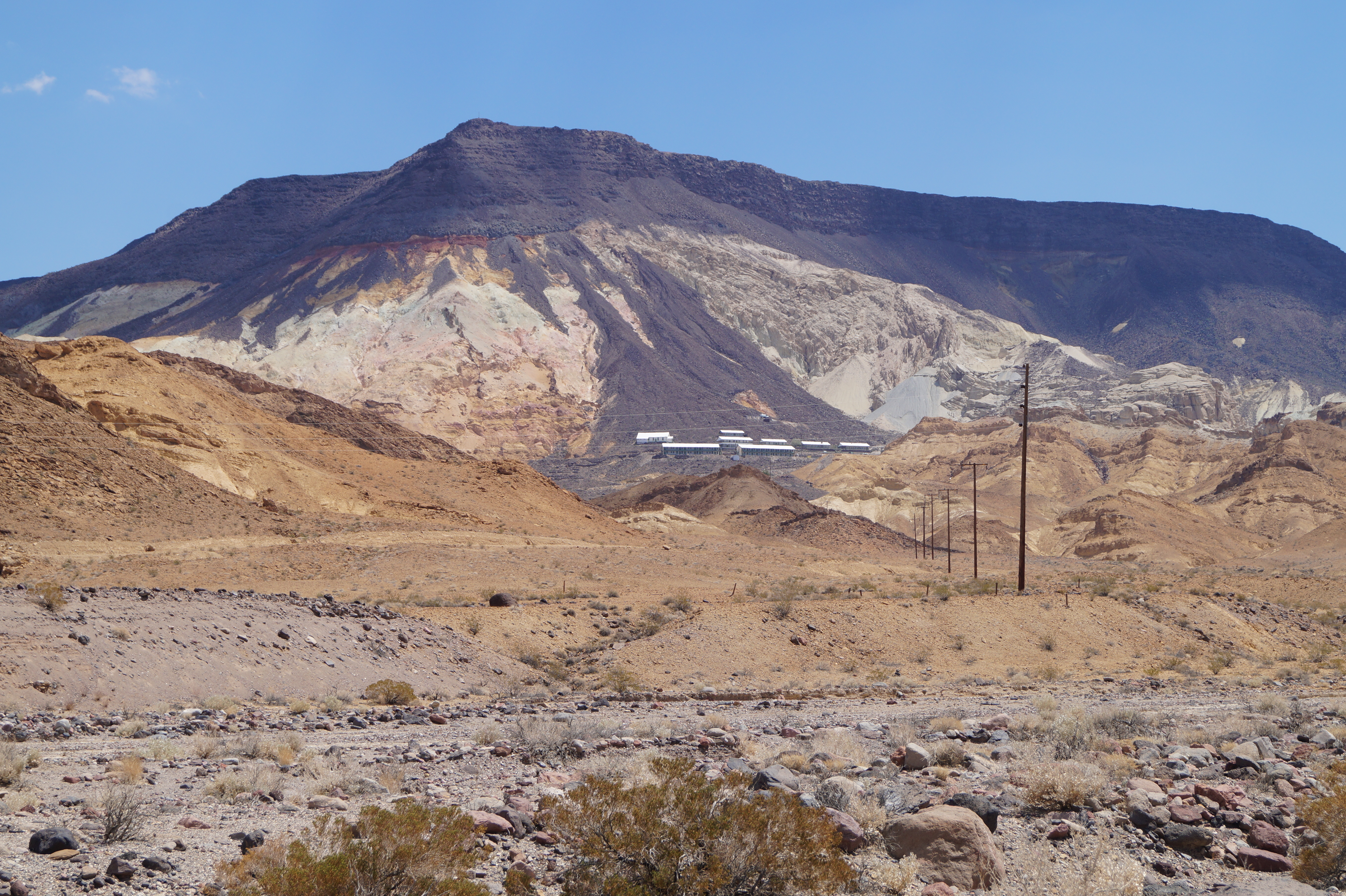 Ryan (later known as Devar and Devair) is an unincorporated community in Inyo County, California. A former mining community and company town, Ryan is situated at an elevation of 3,045 feet (928 m) in the Amargosa Range, 8 miles (13 km) northeast of Dante's View and 15 miles (24 km) southeast of Furnace Creek.